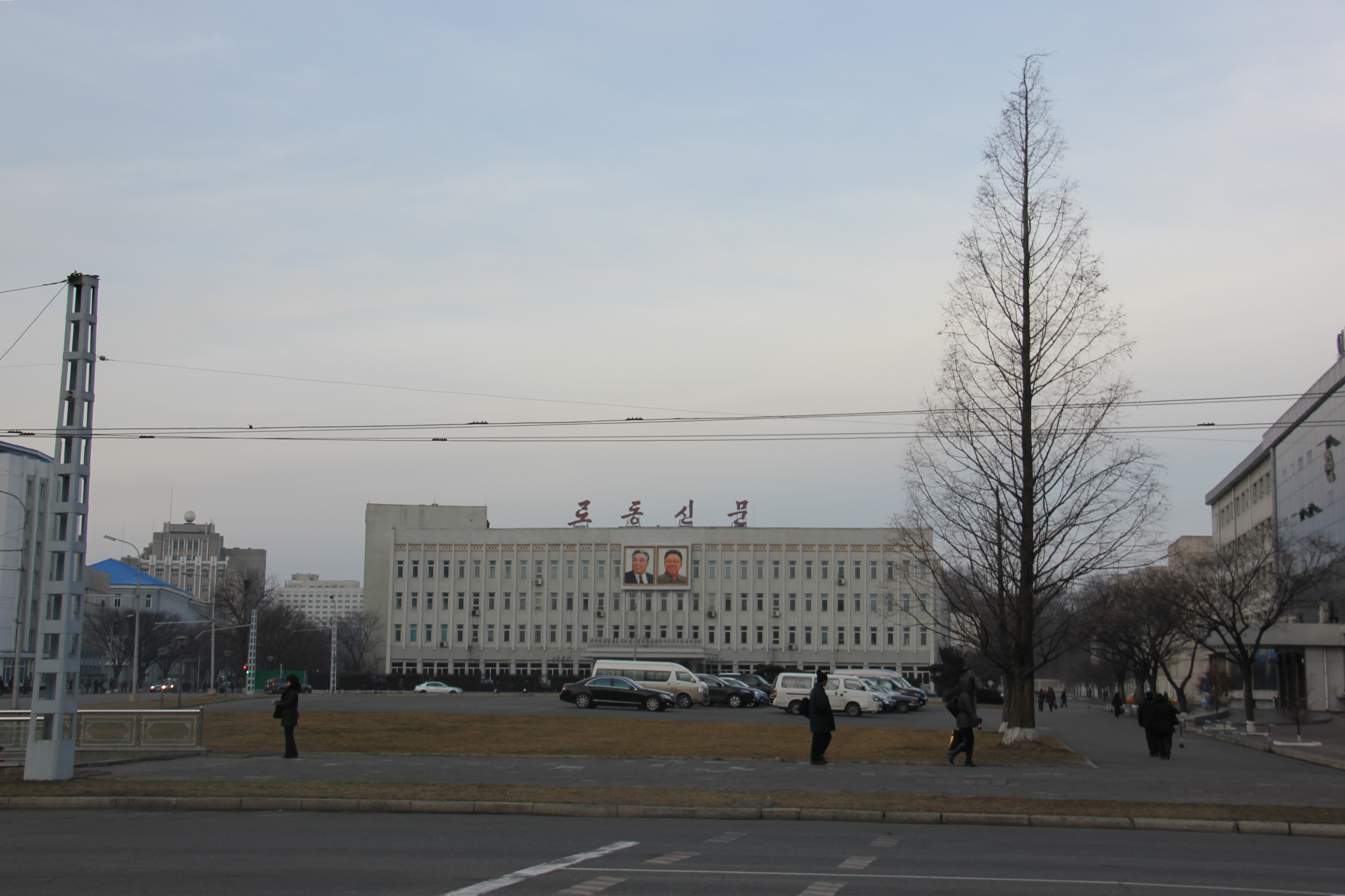 Rodong Shinmun Office